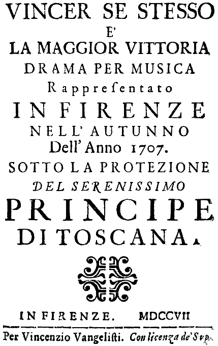 Georg Friedrich Händel - Rodrigo - title page of the libretto - Florence 1707